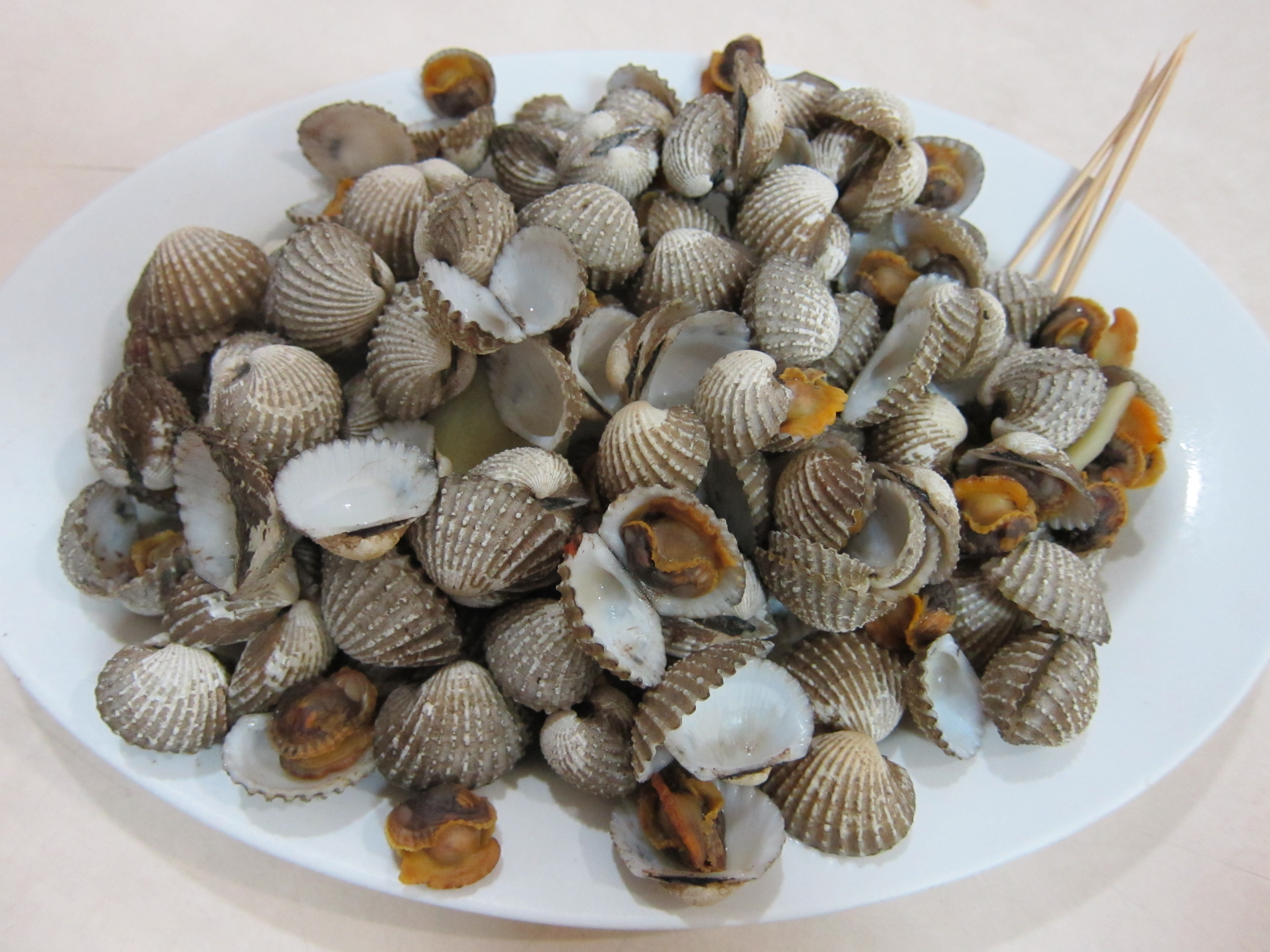 Had cockles for dinner at railway station in Tanjong Pagar, Singapore. These are not true cockles, but are in the family Arcidae, the ark clams